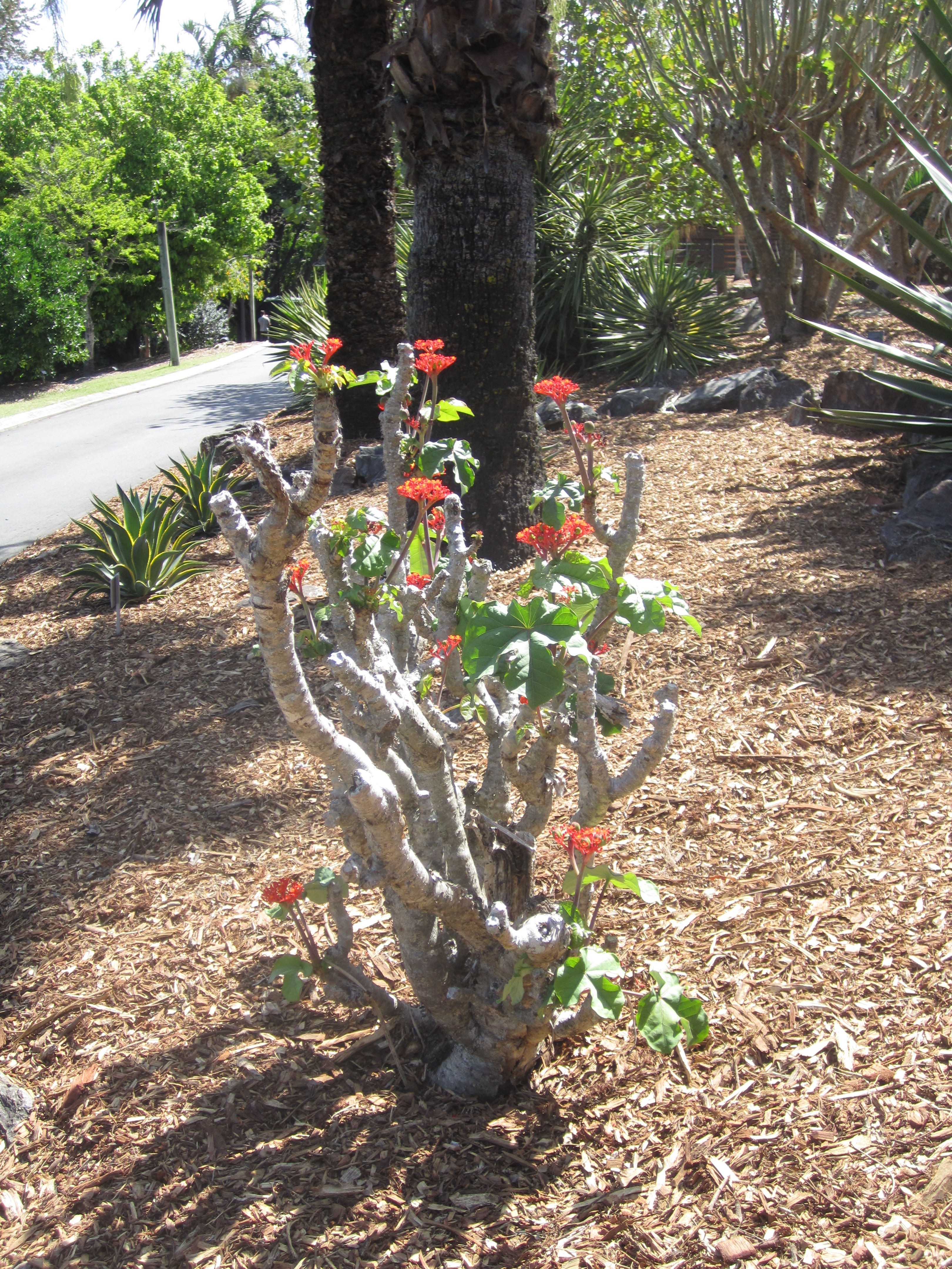 The making of this file was supported by Wikimedia Australia. To see other files made with WM-AU support, please see the category Supported by Wikimedia Australia. Jatropha podagrica (gout plant) in the arid plants section of the Mount Coot-tha Botanical Gardens. Photo taken in October (mid spring) of 2012.